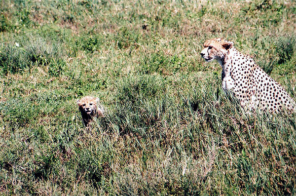 Cheetah with cub in the Serengeti, Tanzania.